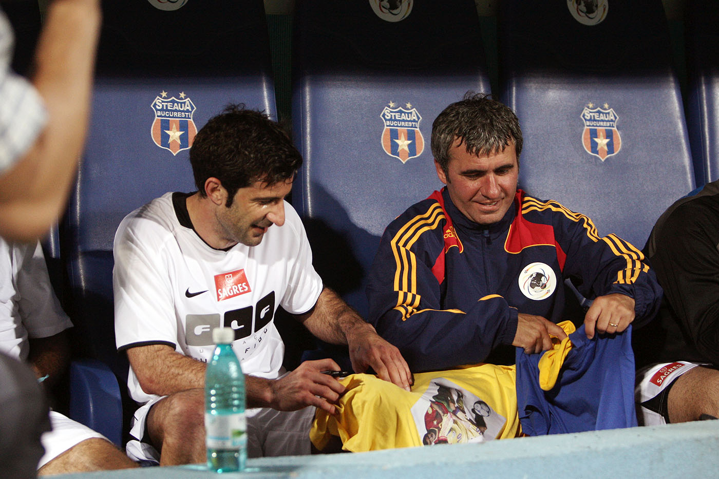 Hagi and Luis Figo